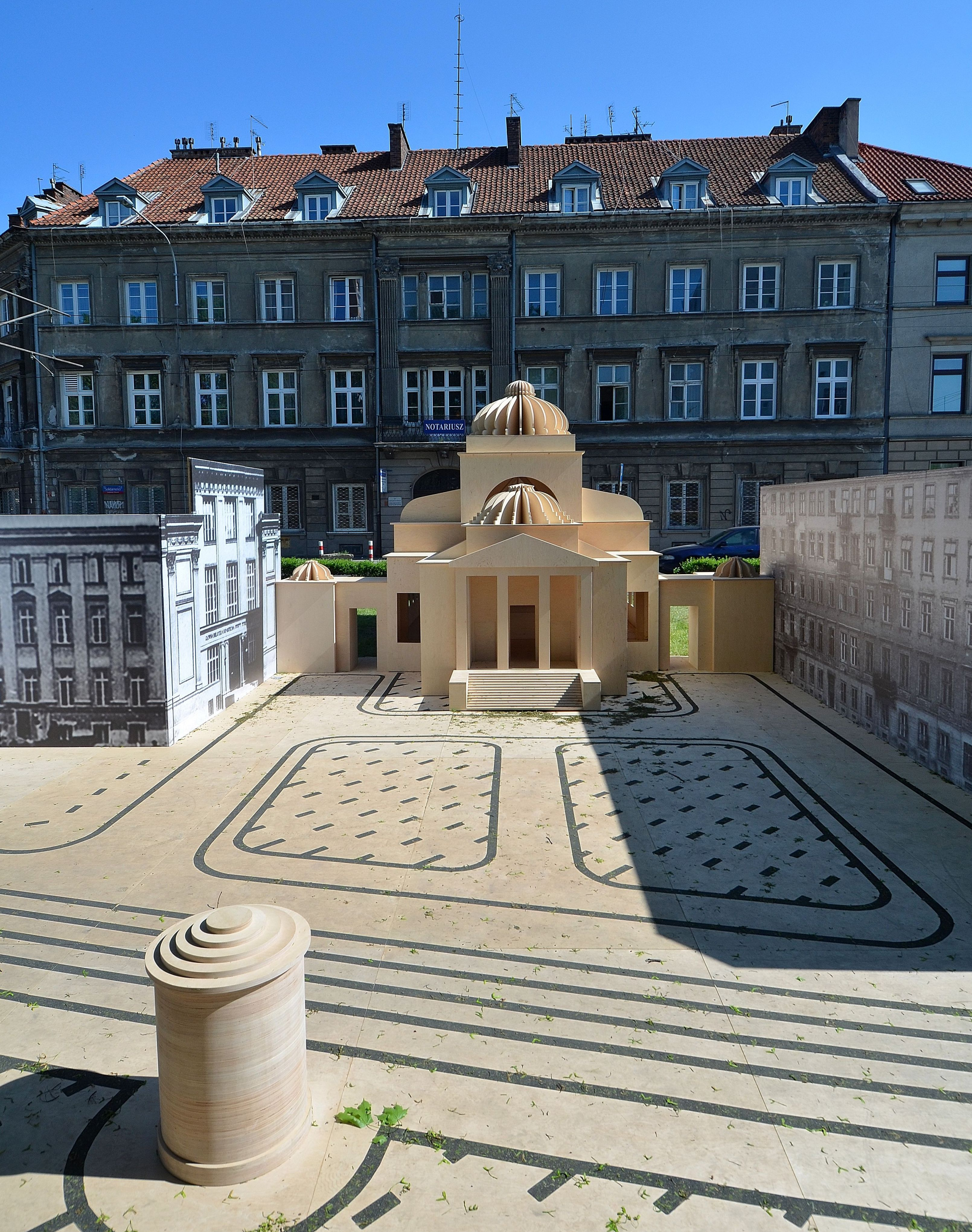 Replica of Great Synagogue. Solidarności Avenue in Warsaw